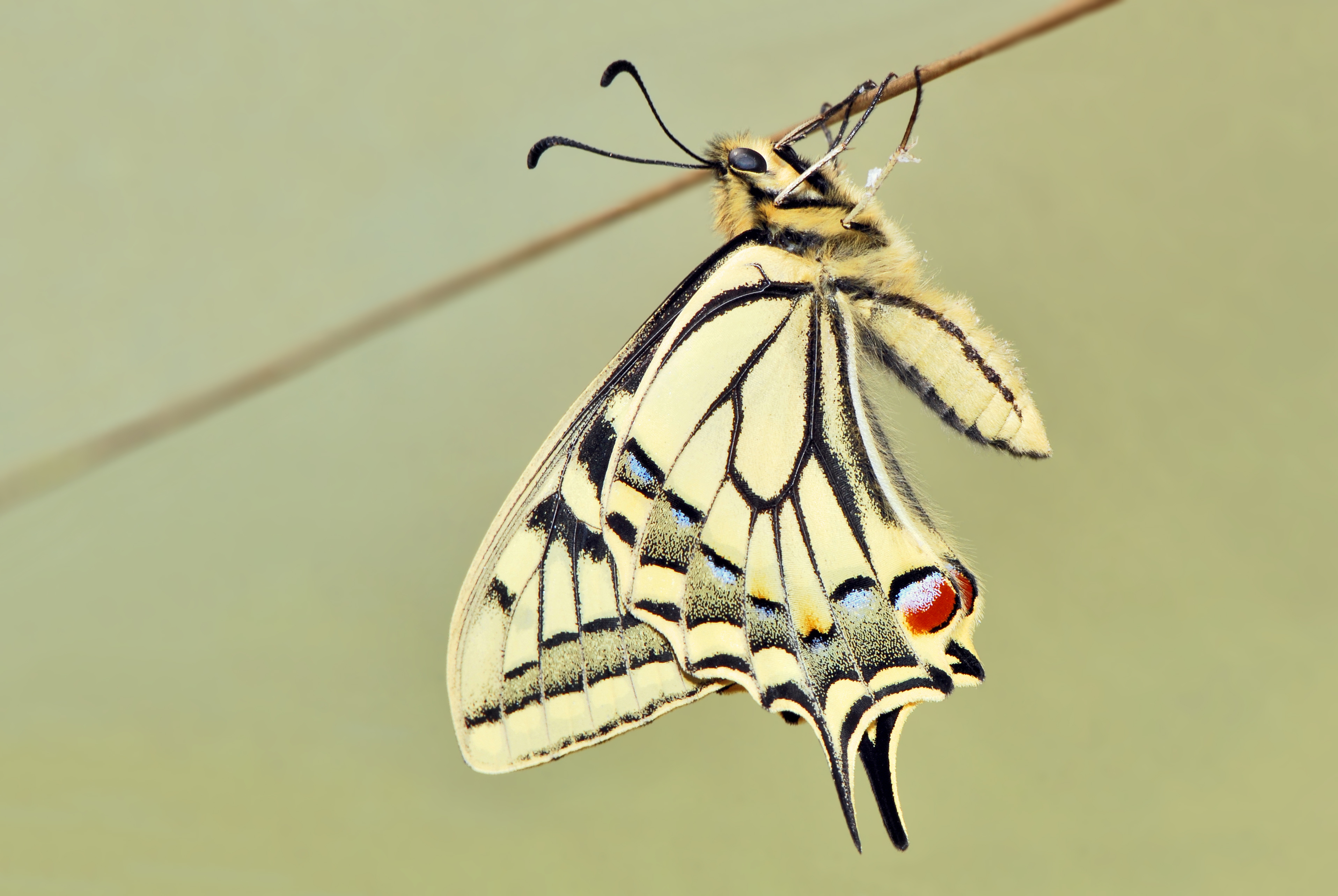 The Old World Swallowtail (Papilio machaon), is a butterfly of the family Papilionidae. The butterfly is also known as the Common Yellow Swallowtail or, simply, The Swallowtail (a common name applied to all members of the family). It is the type species of the genus Papilio and occurs throughout the Palearctic region in Europe and Asia; it also occurs across North America, and thus is not restricted to the Old World, despite the common name.